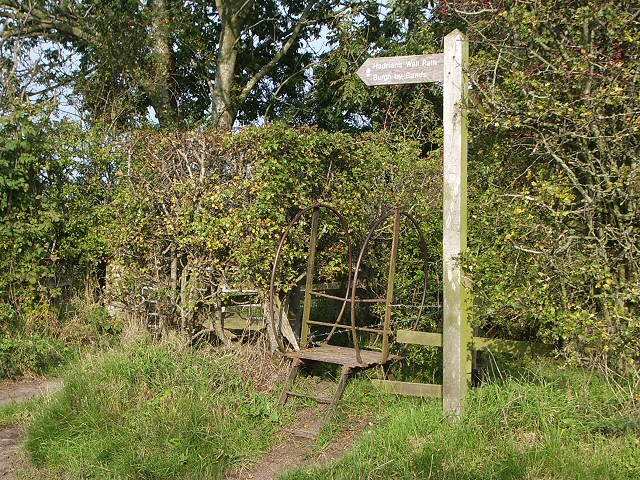 Stile on Hadrians Wall Path The footpath from Beaumont comes out onto the road to pass through Burgh By Sands. The stile is a very unusual construction. A site visitor writes: This stile no longer exists. It was replaced with a 'kissing gate' in early 2007.